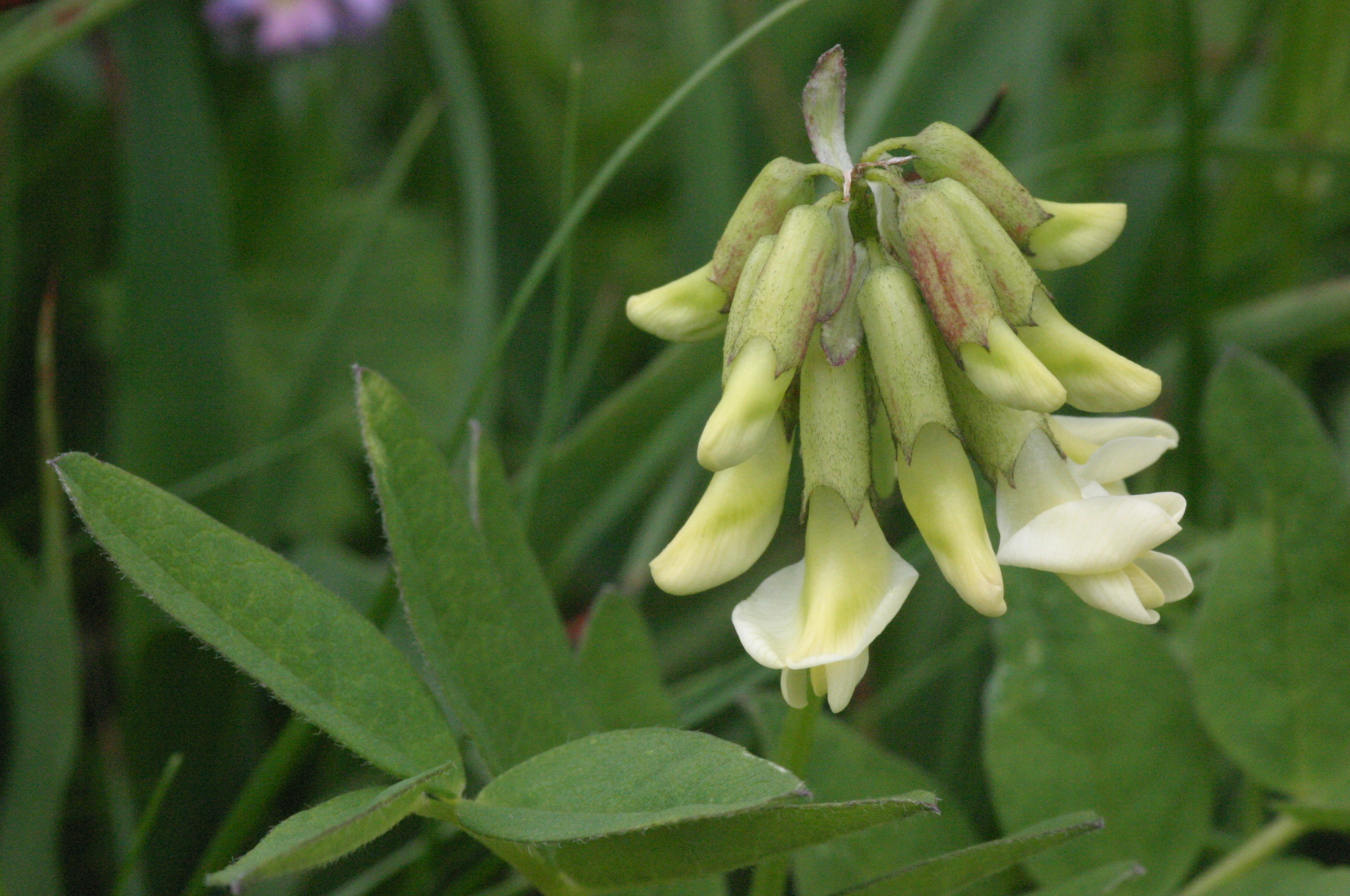 Astragalus frigidus